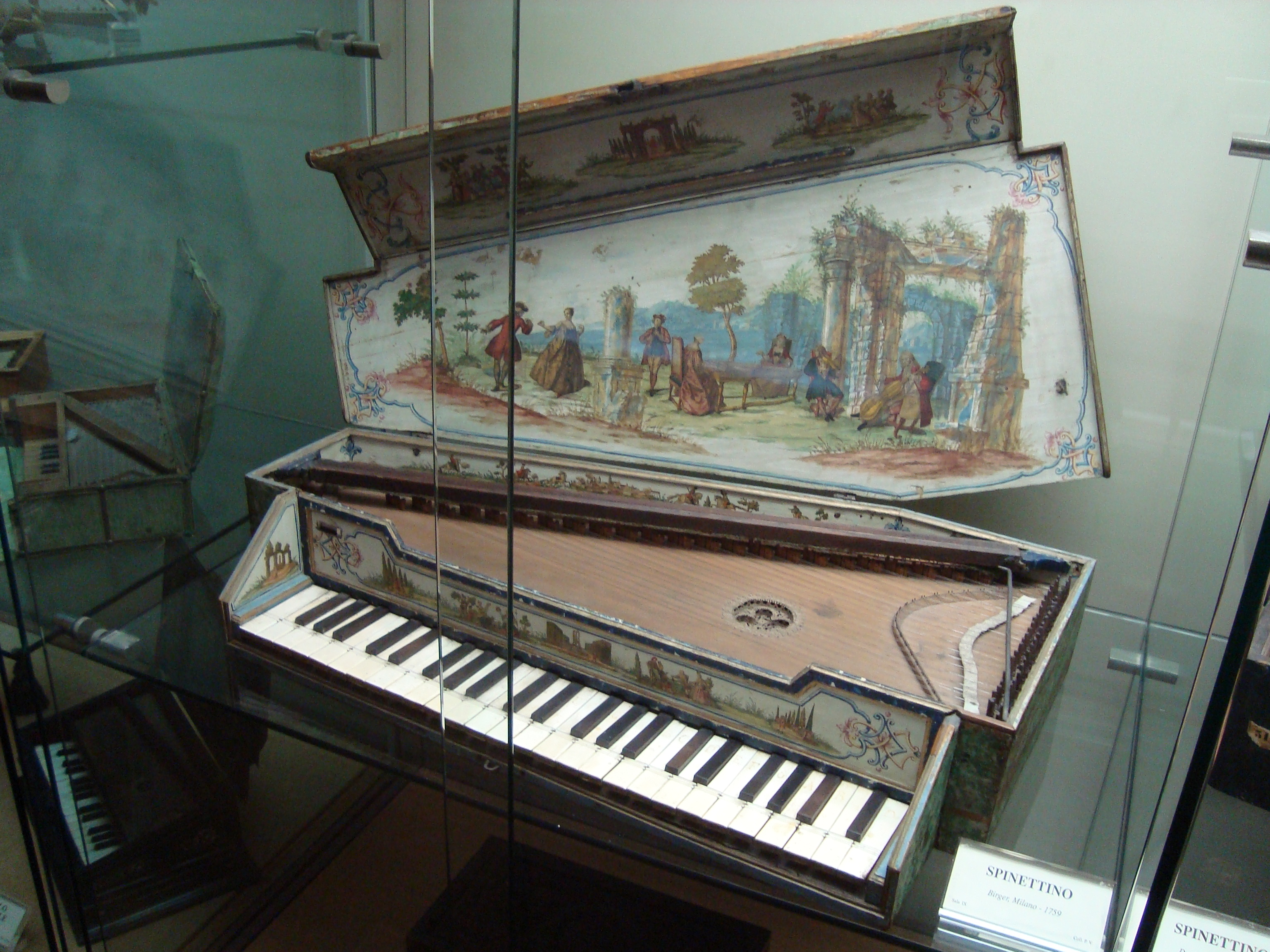 Spinet by manufacturer Birger made in 1759, Milano, Museo Nazionale degli Strumenti Musicali di Roma